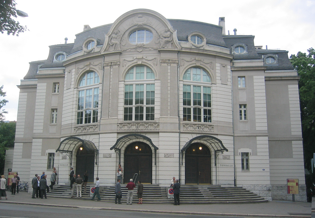 St. Gallen, Switzerland: Tonhalle (concert hall)